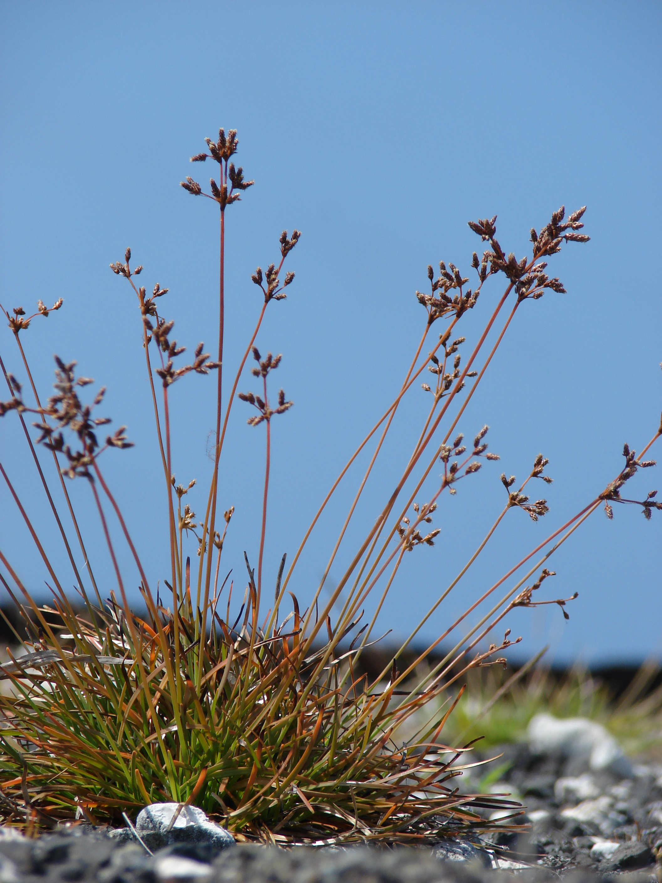 Fimbristylis cymosa (fruiting habit). Location: Midway Atoll, Along coast east of Bulky Dump Sand Island